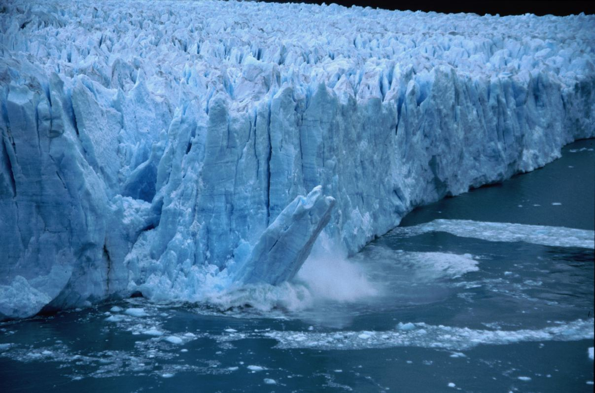 Perito Moreno Glacier, in Los Glaciares National Park, southern Argentina